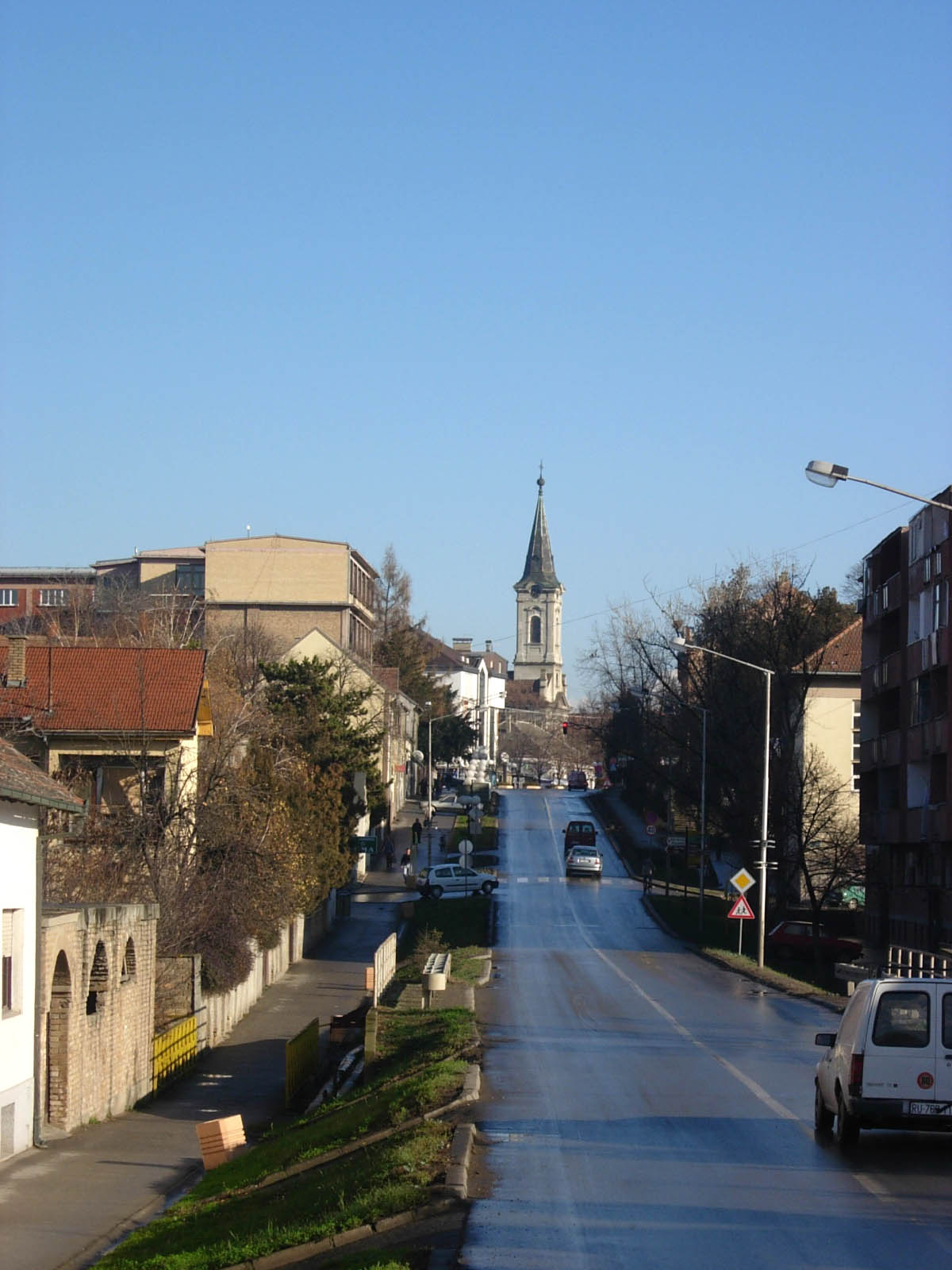 The Catholic church in the centre of Inđija.